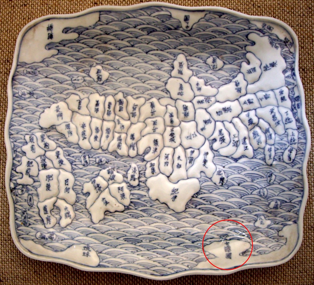 Plate with Gyoki-type map, "Land of women" marked